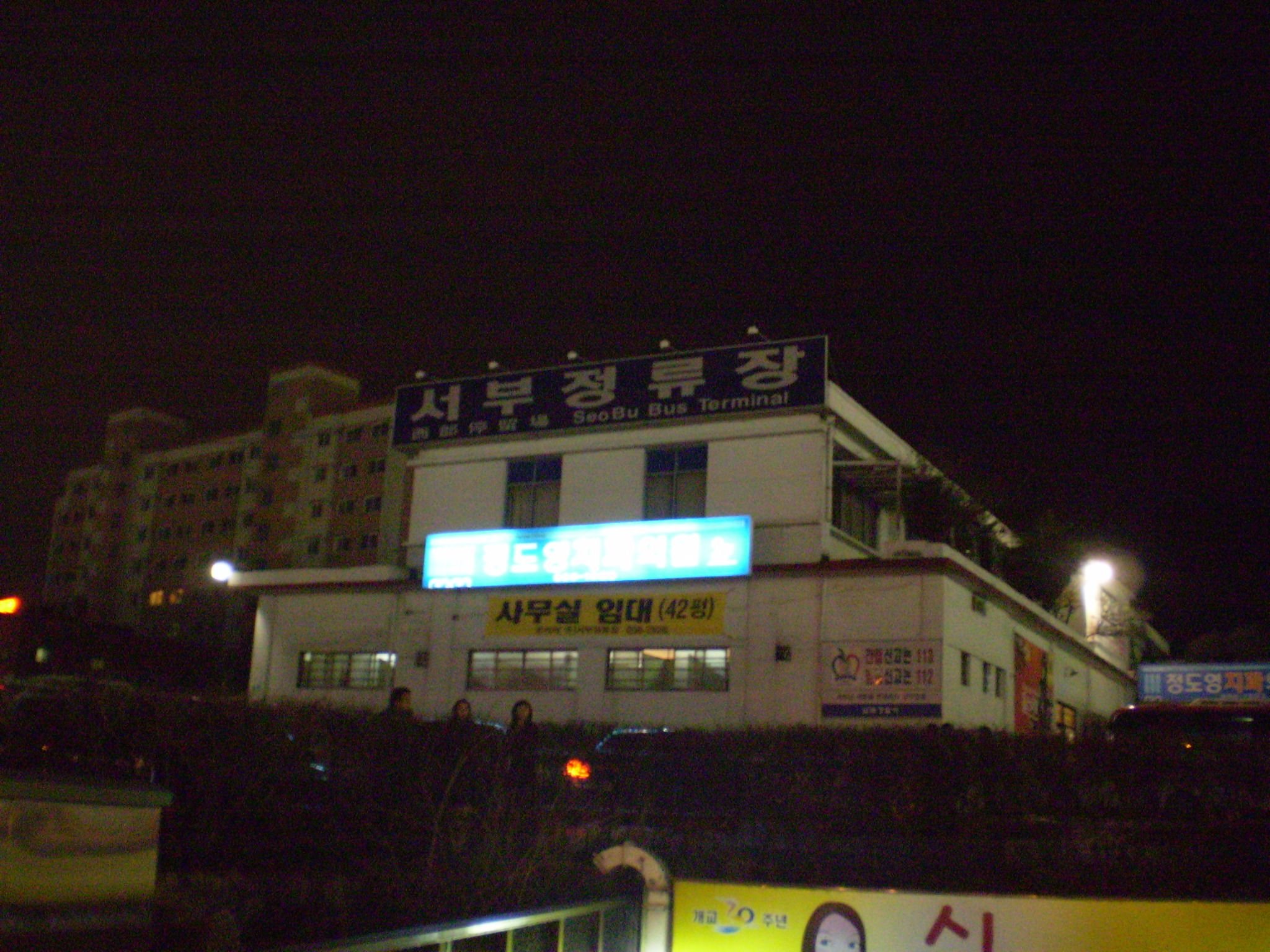 Seobu intercity bus terminal in Daegu, South Korea.